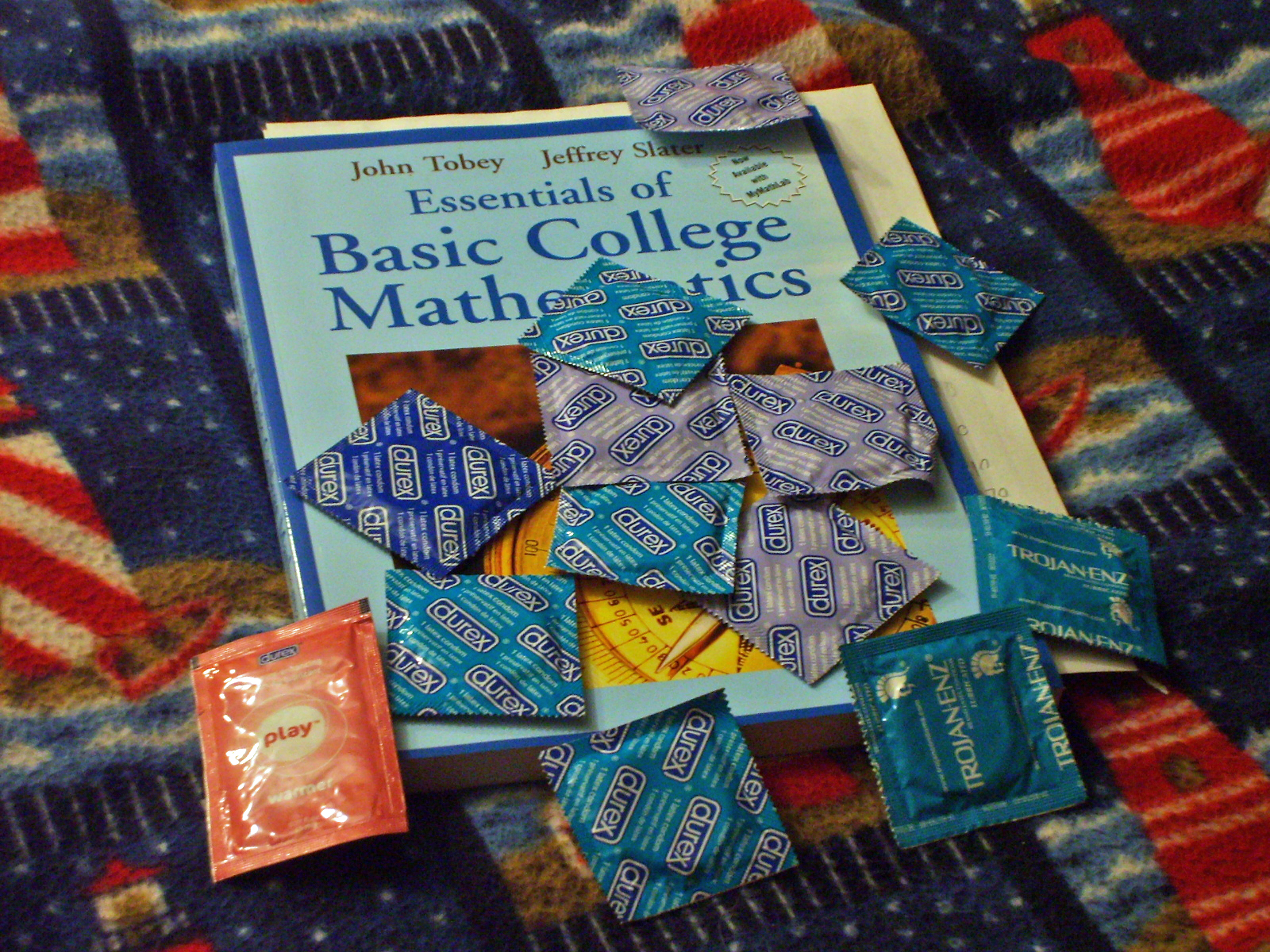 So yeah, I got a package today from from Free Condoms, a Facebook app (ironically just about 15 minutes before on my way out of the college I picked up some more from the nurses office) and here they are and being the cheeky person I am, I deicded to make a quick still life out of this. Basic College Math, yes, my math is at a fourth grade level and I really do need to relearn my multiplication tables, I kid you not. This is also my second textbook of the same one, I lost my first one and had to buy this one for $80. Textbook prices, grr. I also had to drop out of this class because I was failing it for the most part. Can you find the non-lubricated one!?